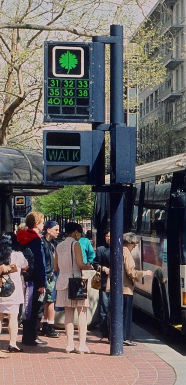 Green Leaf symbol bus stop sign on the Portland Mall – the transit mall of TriMet, in Portland, Oregon. This stop was on 5th Avenue at Washington Street. A sign for the Brown Beaver service area is visible in the background. TriMet discontinued use of the "service sector" symbols in early 2007, when the mall closed for rebuilding.